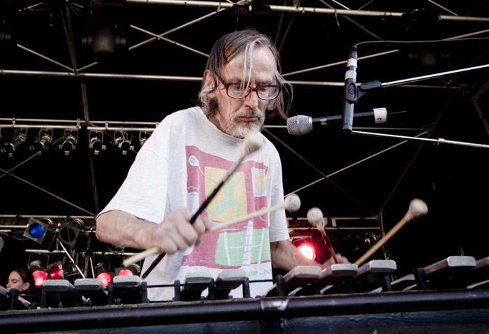 Christian Burchard, Vibraphonist of Embryo